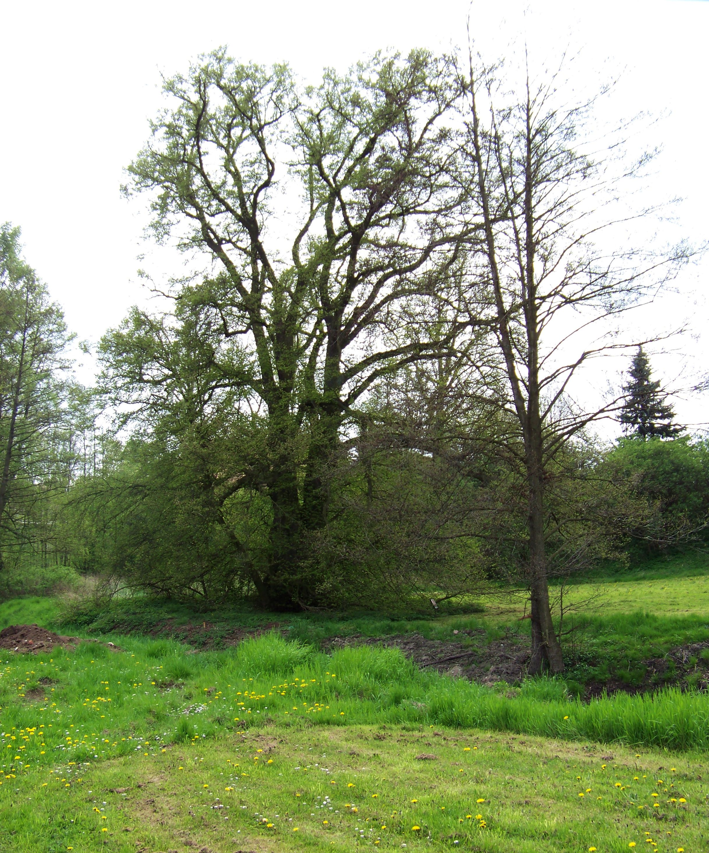 Prague-Nedvězí, Czech Republic. A memorable limetree near K Radhošti street and Rokytka stream.